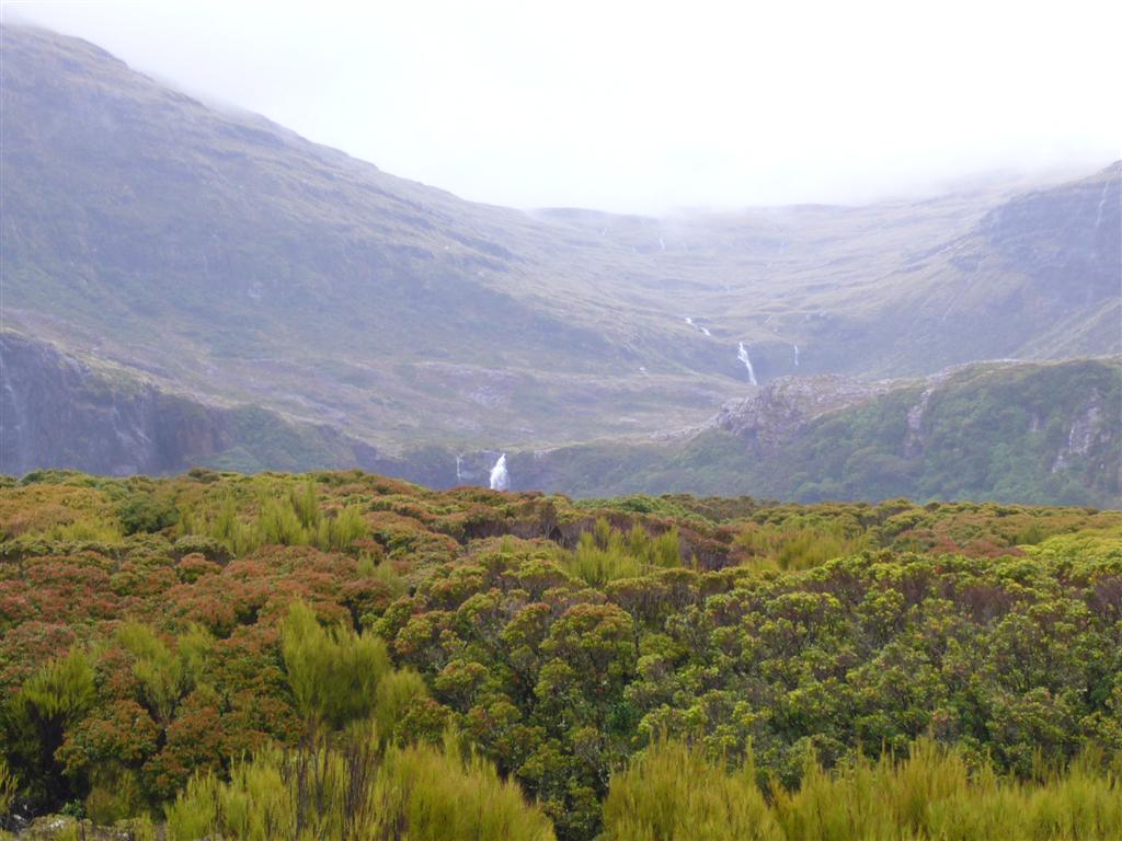 Auckland Island Western side - Looking East. Auckland Islands, New Zealand